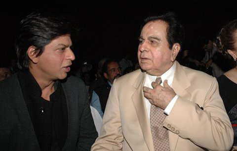 Subhash Ghai's W W I inauguration